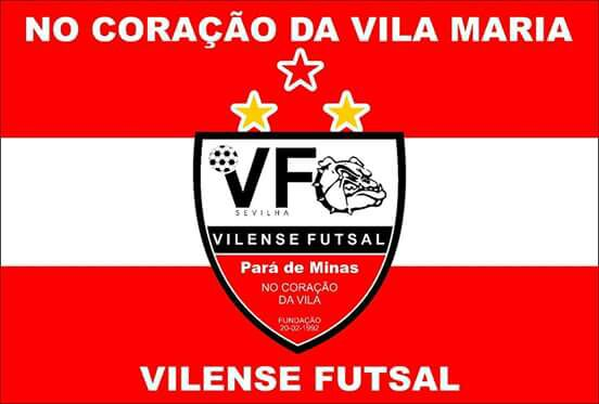 Official Flag of Vilense Futsal.